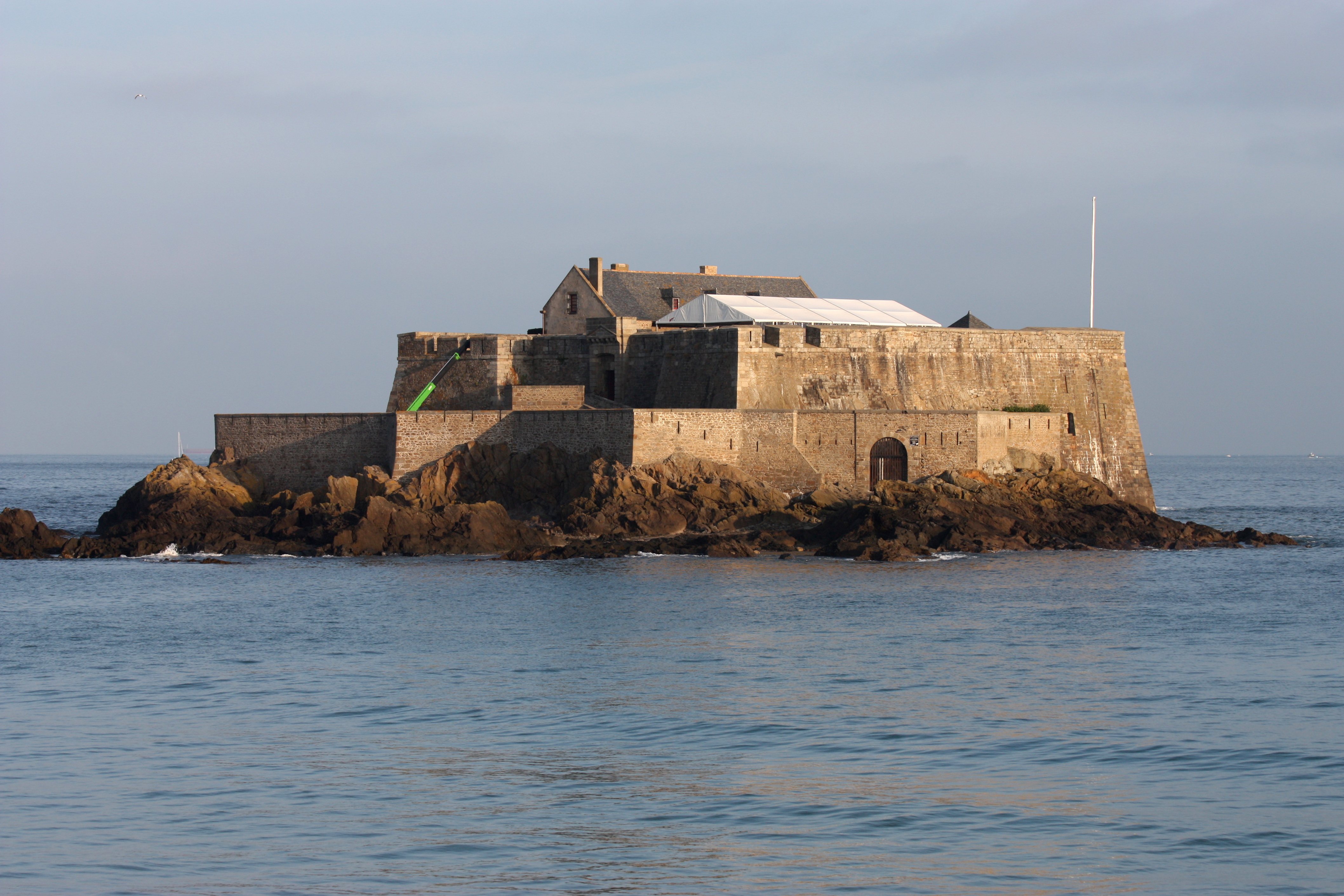 The Fort National in Saint-Malo, seen at (almost) high tide.